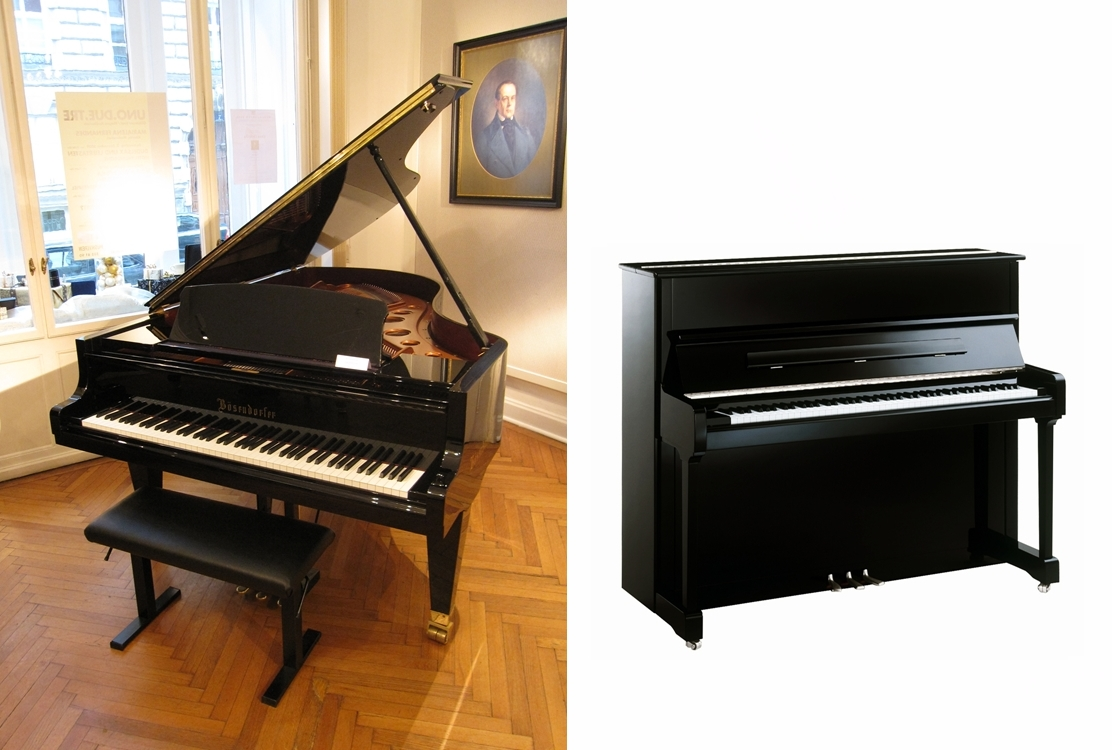 A photo of a Bösendorfer grand piano and a photo of an upright piano.